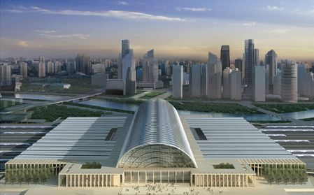 Planning and design of Tianjin West Station City Center，by Government of Tianjin City,P.R.China